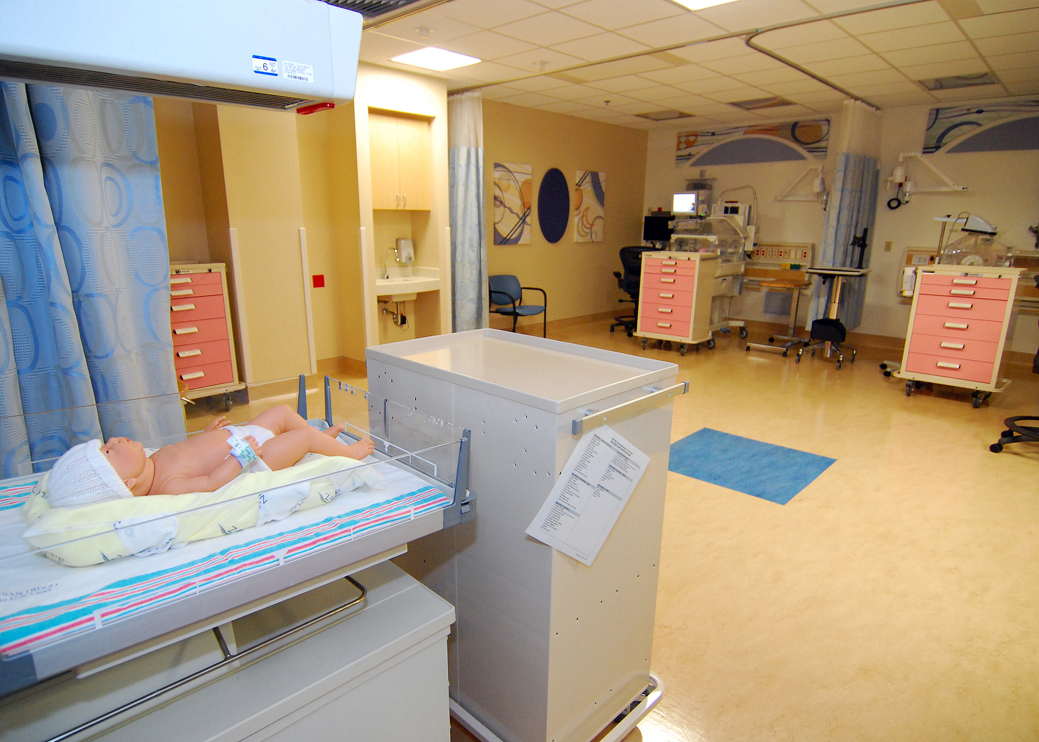 SAN DIEGO, Calif. (Aug. 14, 2009) A mock set-up of the new pod design in the Neonatal Intensive Care Unit (NICU) at Naval Medical Center San Diego (NMCSD) is on display during an open house to showcase the wards expansion in space and technology. (U.S. Navy photo by Mass Communication Specialist 3rd Class Jake Berenguer/Released)